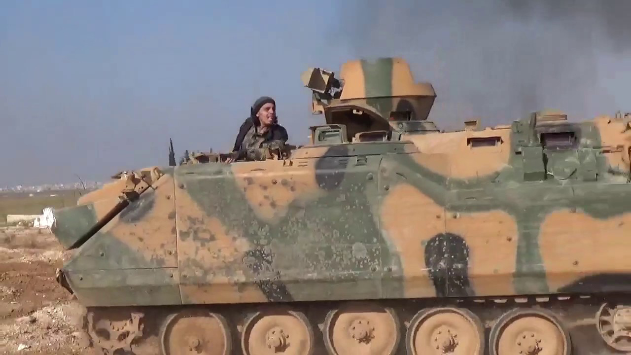 A Turkish ACV-15 operated by Free Syrian Army forces during the Battle of al-Bab in 2017.